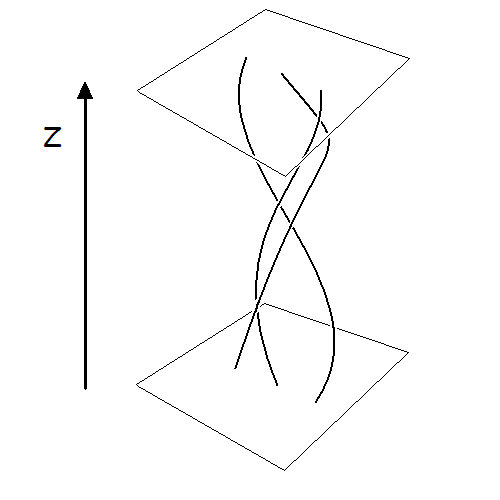 new version of file:Threedimensional braid.png, drawed with Paint and Corel_Photo_Paint